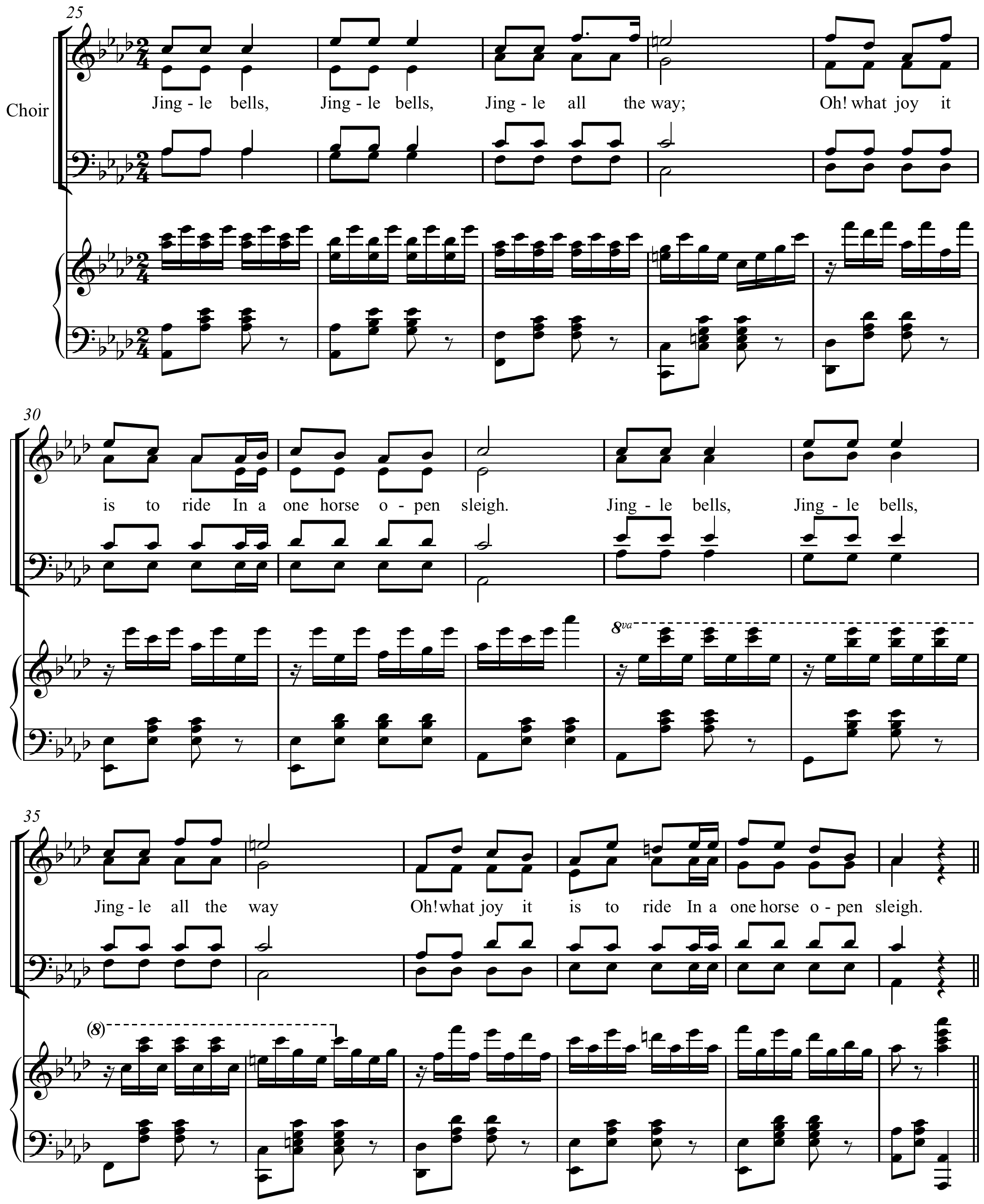 "One Horse Open Sleigh" chorus Ab